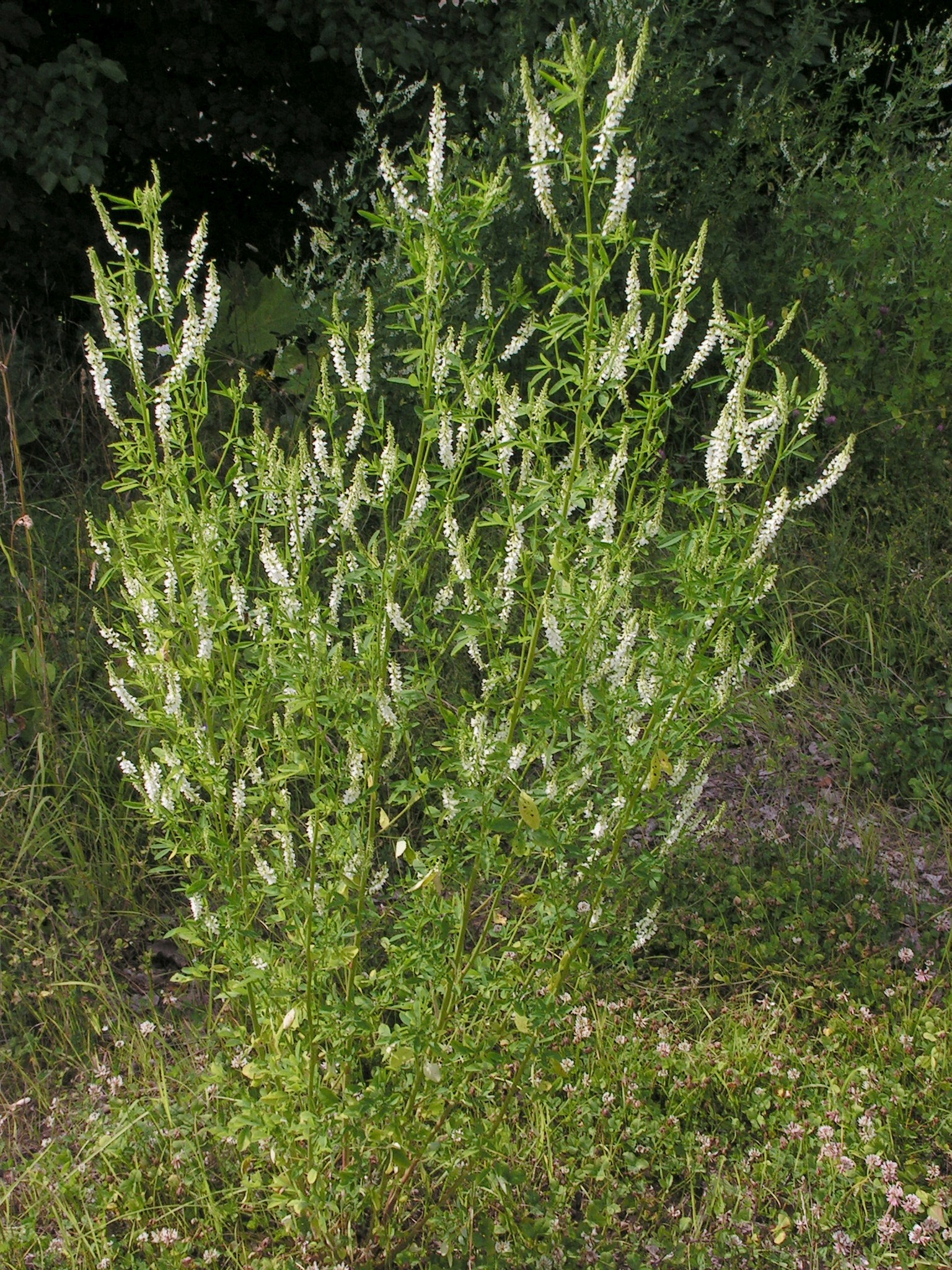 Melilotus albus Medik. Moscow region, Russia.